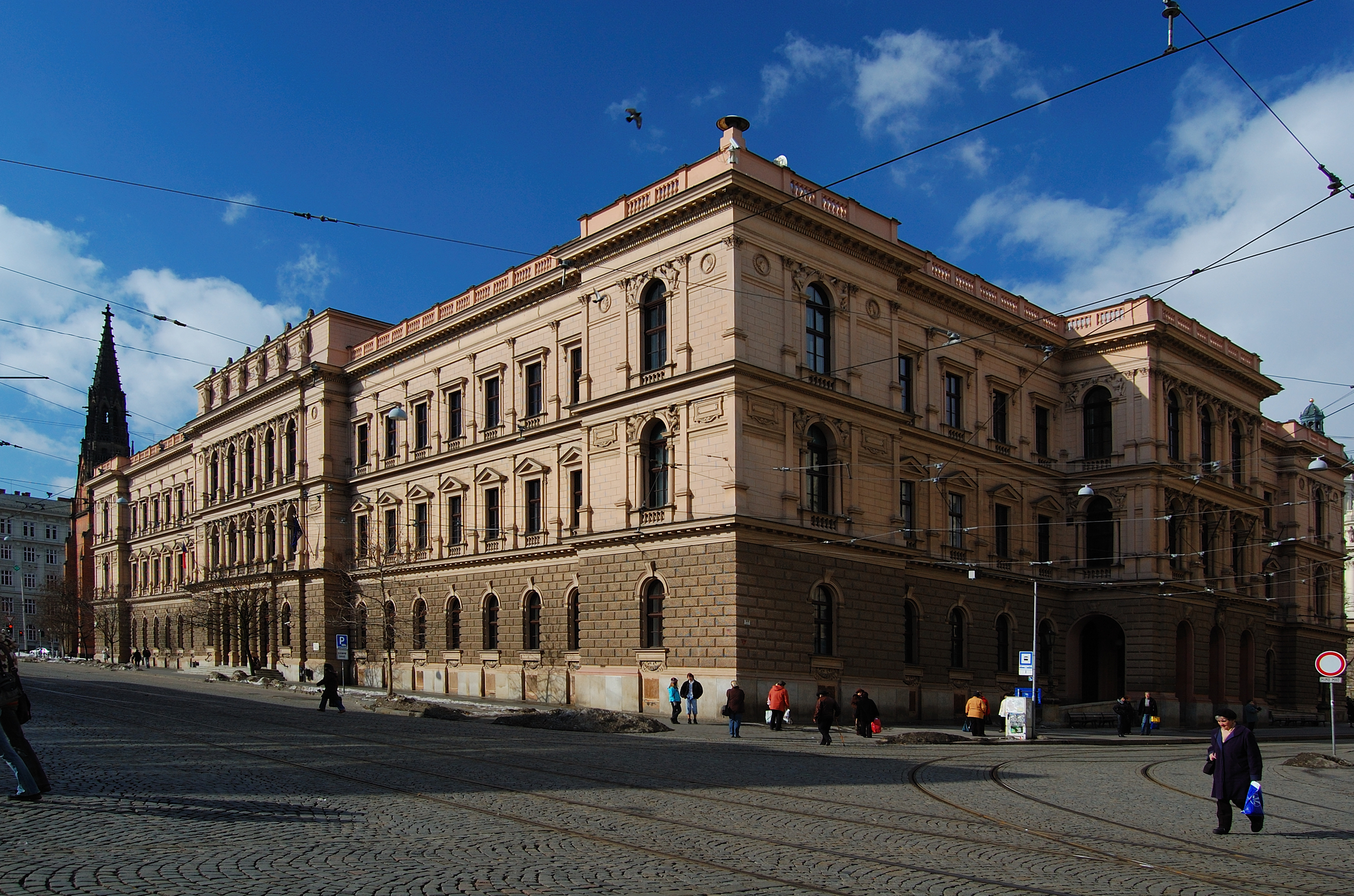 The Constitutional Court of The Czech Republic in Brno.